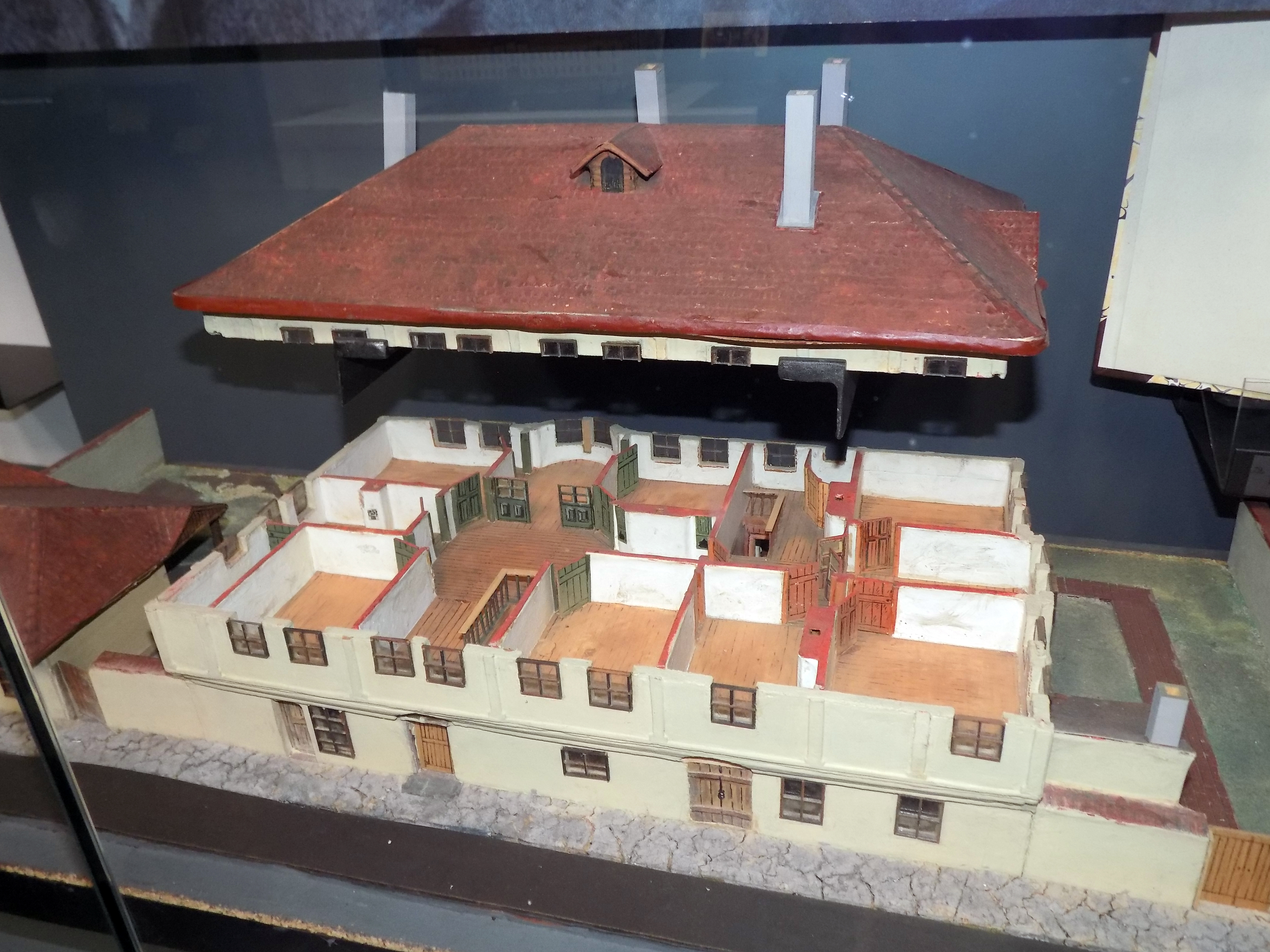 Model of building of Belgrade Higher School (an exhibit of the Pedagogical Museum in Belgrade)